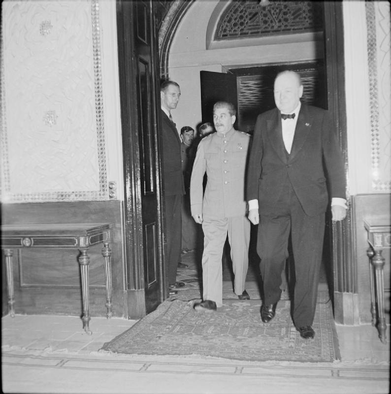 Winston Churchill leads Marshal Stalin into the reception room at the British Legation in Tehran on the occasion of Churchill's 69th birthday, 30 November 1943.